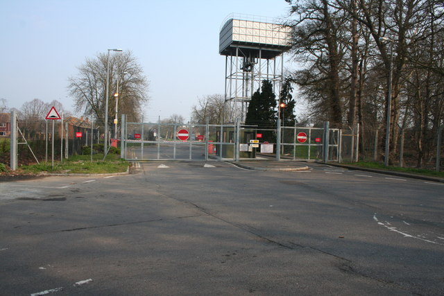 RAF Chicksands Entrance to RAF Chicksands. This facility used to collect the radio data to be decoded by Bletchley Park during WWII. It was the subject of heavy bombing.